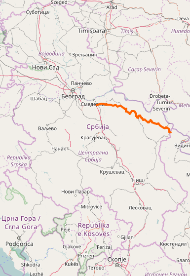 OpenStreetMap of State Road 33 in Serbia.